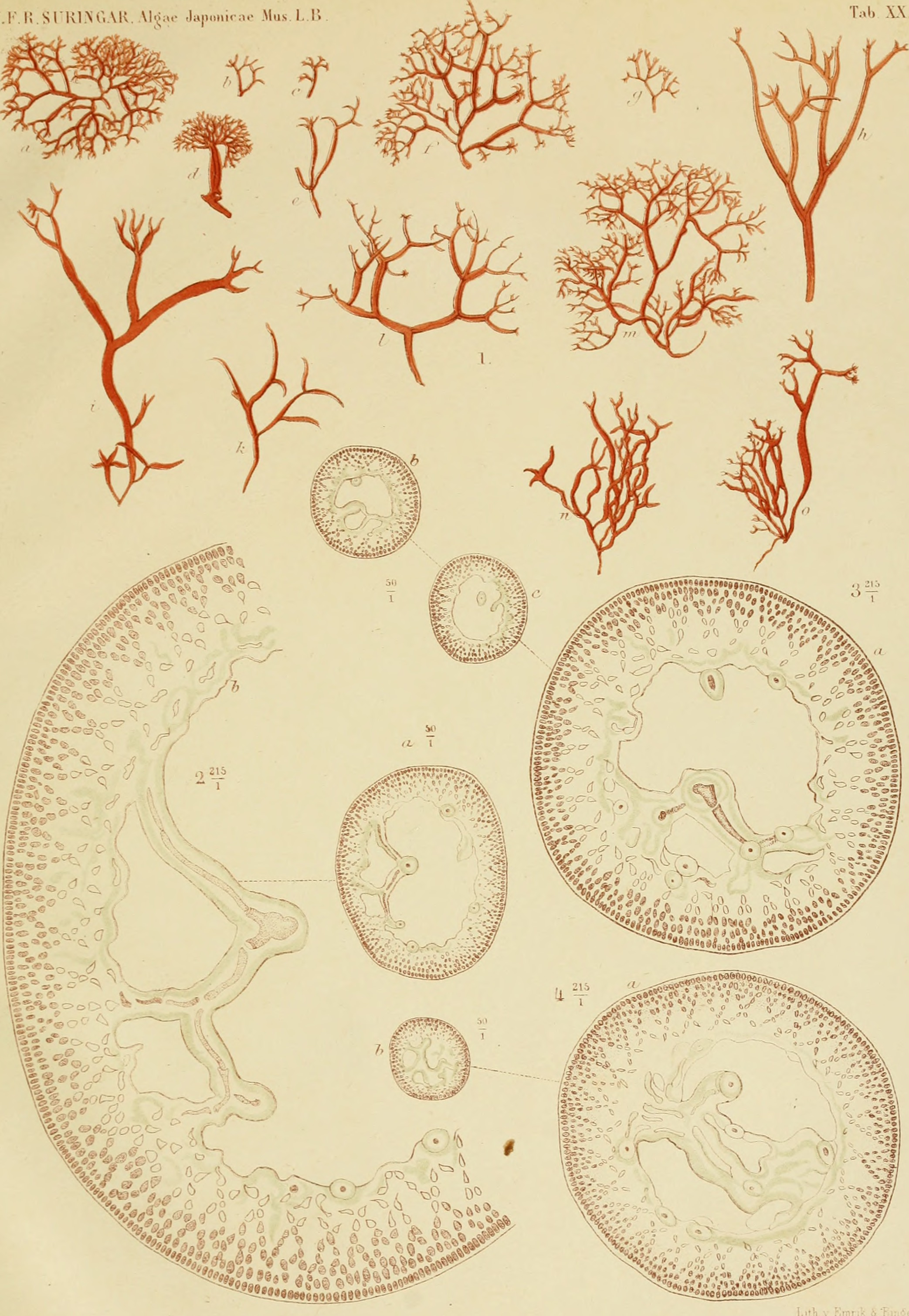 Title: Algae japonicae Musei botanici lugduno-batavi Year: 1870 (1870s) Authors: Suringar, W. F. R. (Willem Frederik Reinier), 1832-1898; Hollandsche Maatschappij der Wetenschappen Subjects: Leiden (Netherlands). Museum Botanicum Lugduno-Batavum; Algae Publisher: Harlemi : Typis Heredum Loosjes Text Appearing Before Image: w.i' i; siKi.Nr.AK. \i.i^..- .ia;....ii.n.- .Mus I. r. Tal, .\.\. Text Appearing After Image: '